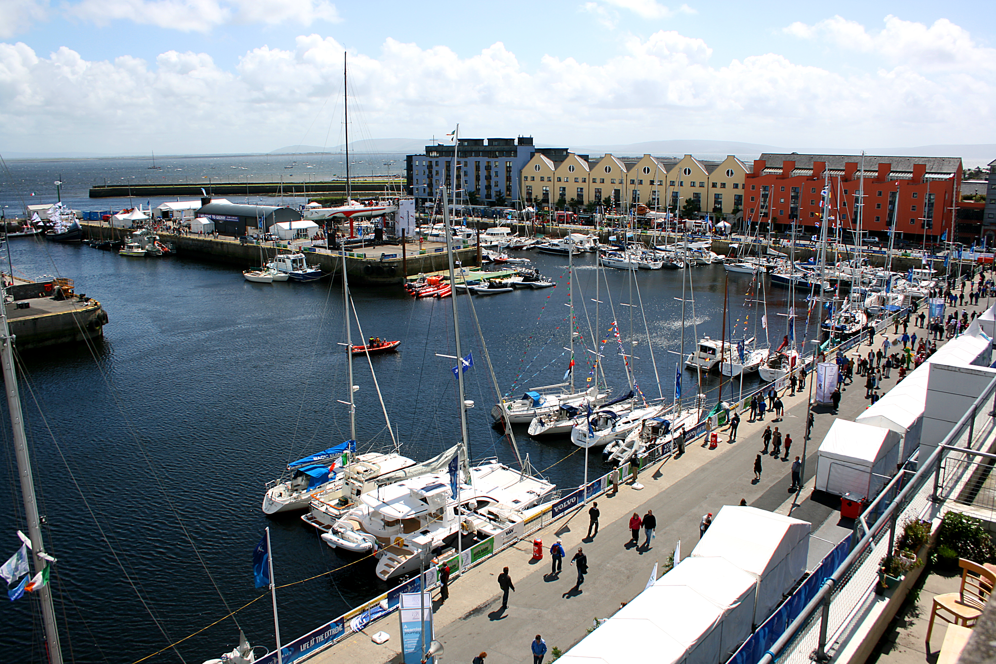 View of Galway harbour during the Volvo Ocean Race stopover.